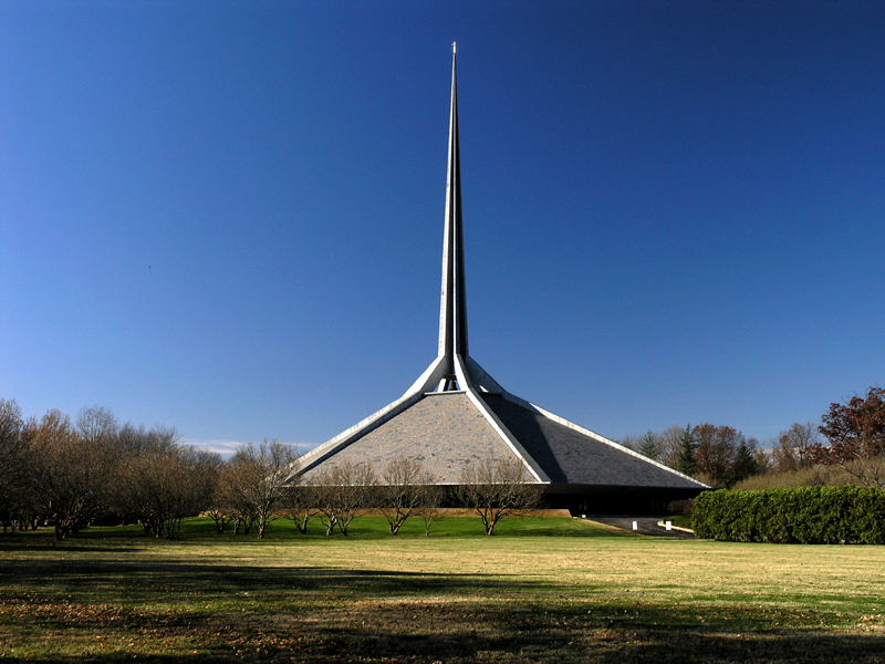 Taken by Greg Hume on 11/12/2005. Greg5030 04:44, 26 February 2007 (UTC)